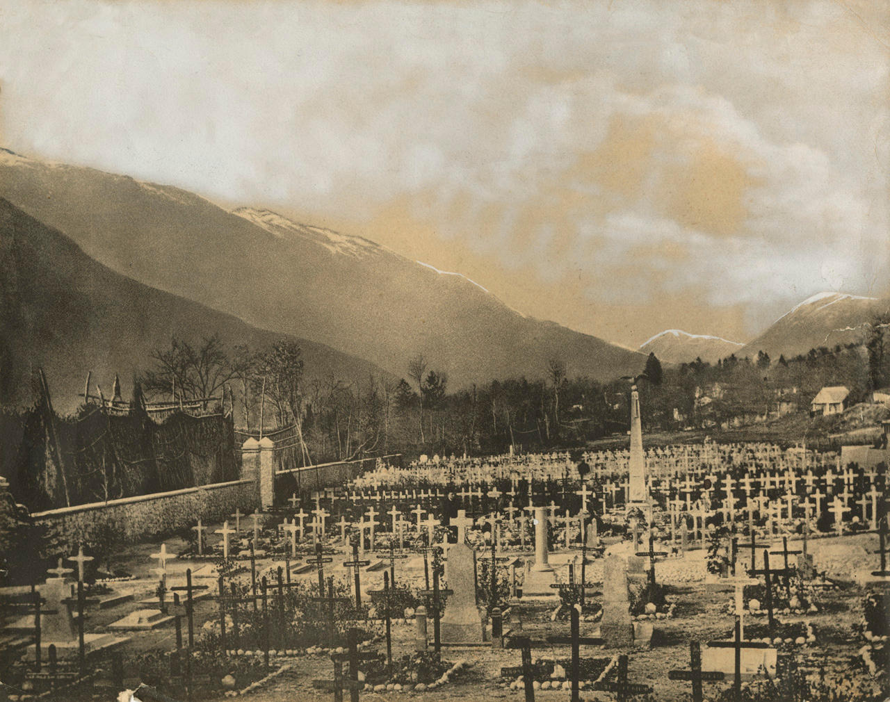 Cimitero militare Kamno, Camina-Slovenia This media shows a cultural heritage object of Slovenia with the EŠD number: 22999